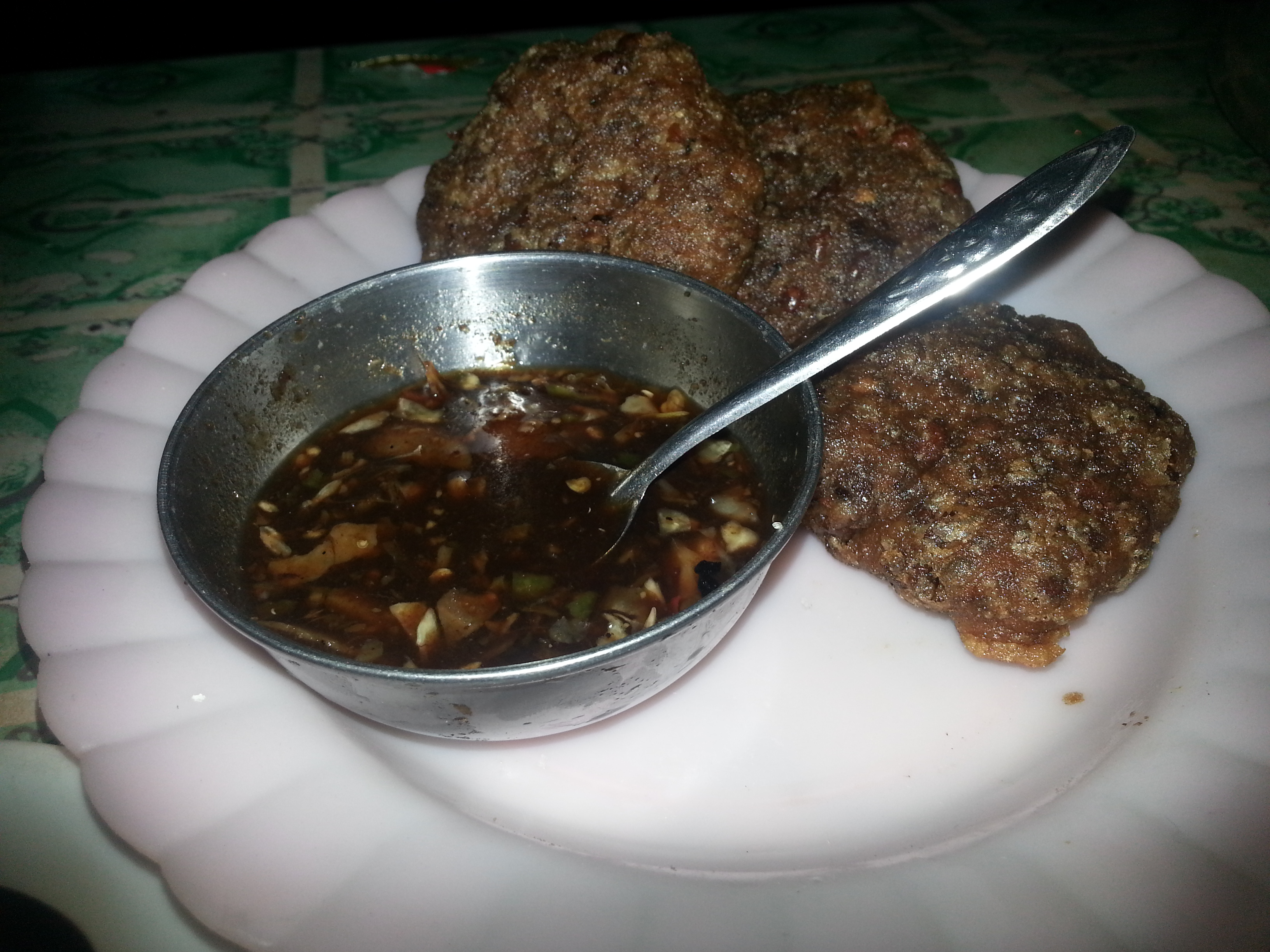 Mandalay Fried Bean, Myanmar Food